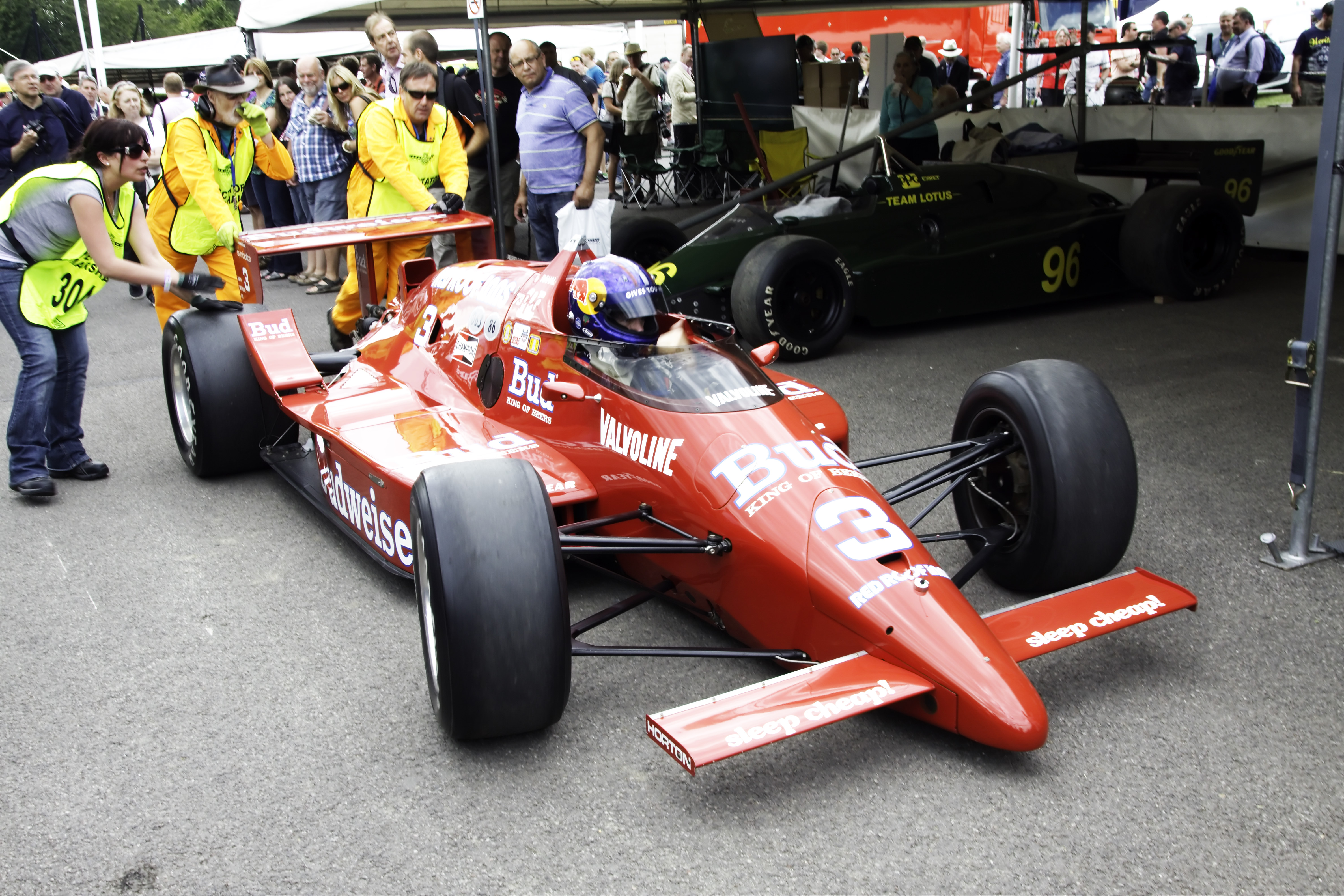 March-Cosworth 86C